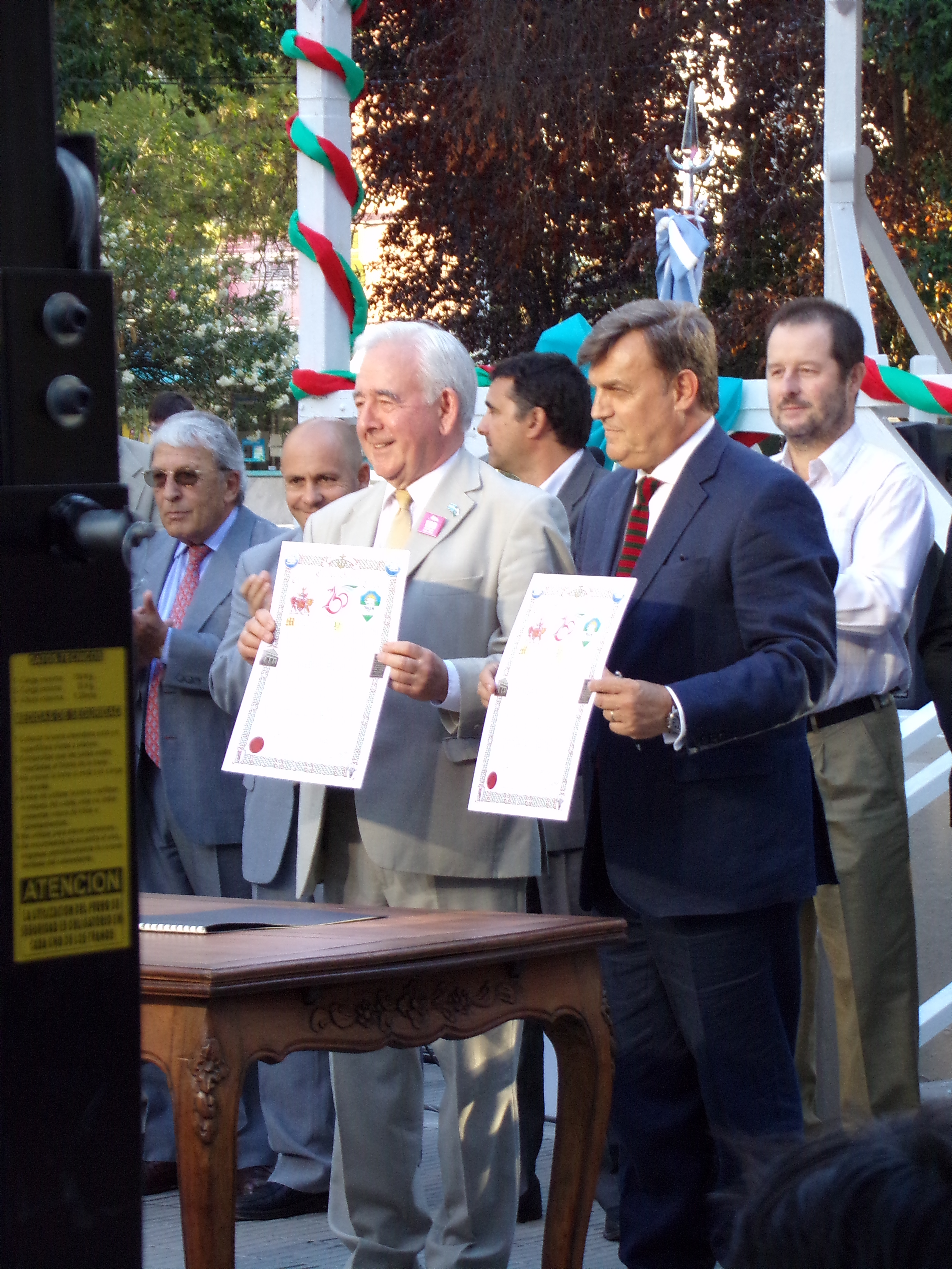 Twinning agreement between Trelew, Argentina, and Caernarfon, Wales.